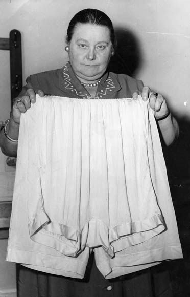 Labour Member of Parliament Mabel Howard had strong ties with the working-class Sydenham electorate, which she represented from 1946 to 1969. She was an advocate for consumers, and is often remembered for waving two differing ‘OS’ (oversize or extra large) pairs of women’s bloomers in Parliament in 1954. Her aim was to show the importance of having standard clothing sizes.